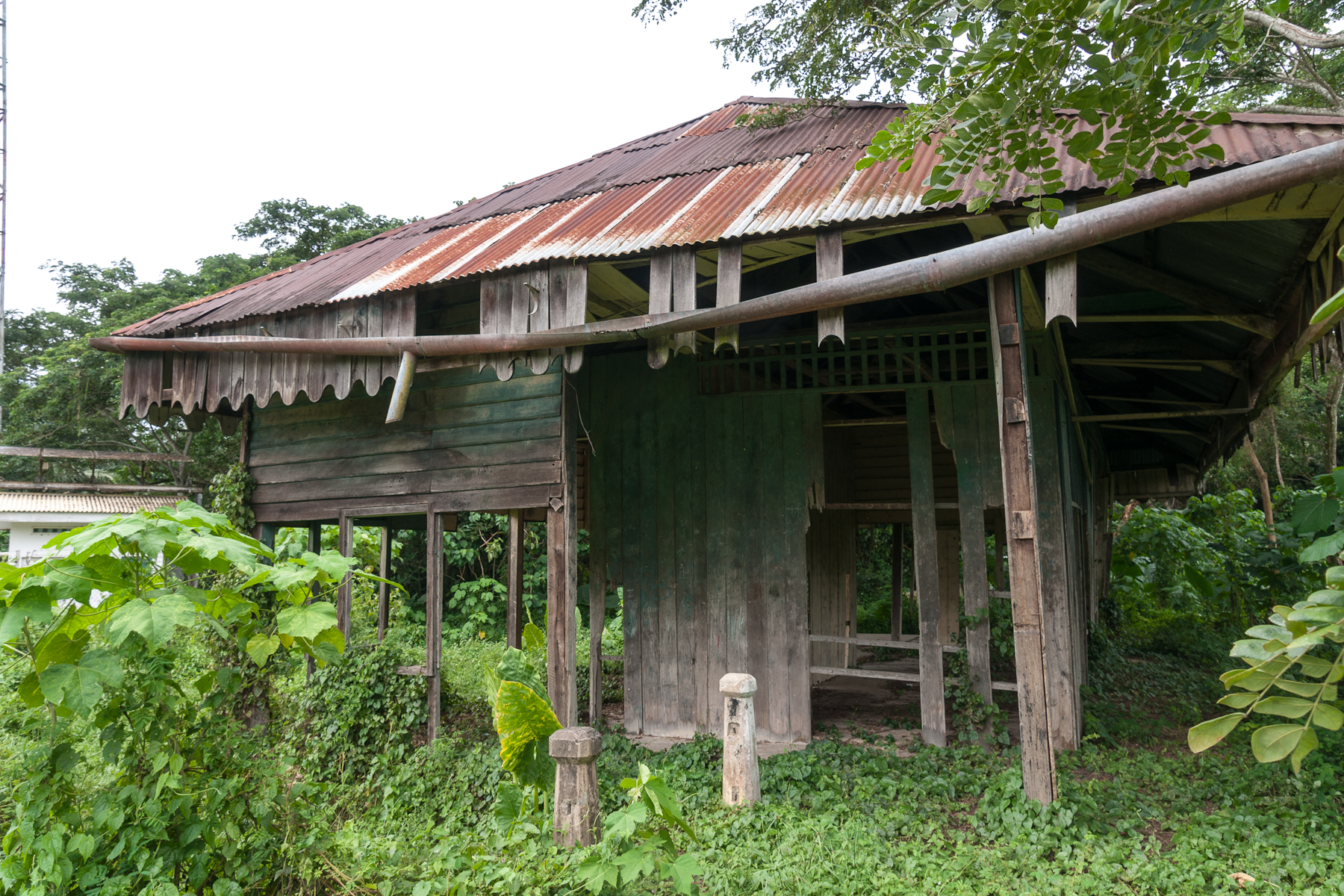 Melalap, Sabah, Malaysia: Former Railway Station of North Borneo Railway